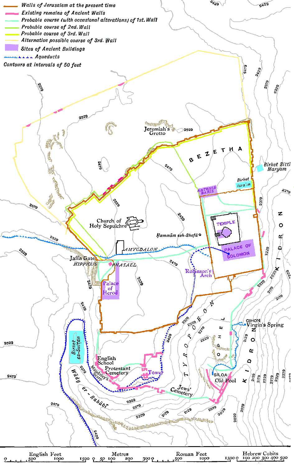 An illustration from the Encyclopaedia Biblica, a 1903 publication which is now in the public domain. Map. 2 for article "Jerusalem". Plan of Ancient Jerusalem, showing height contours, aquaducts, etc. Artificially coloured, from black + white original, to aid clarity.